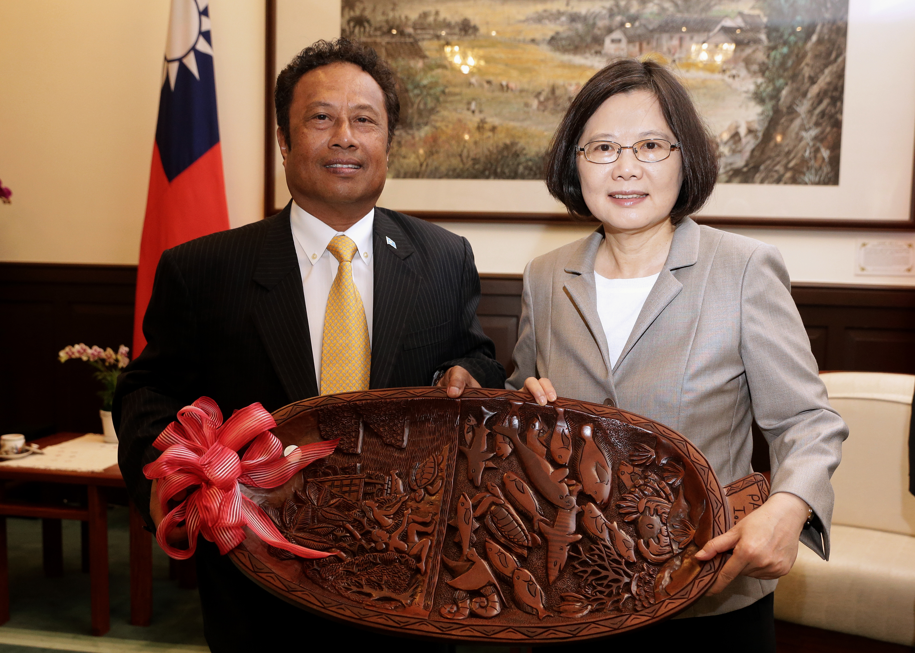 民國百五年五月二十一日 President Tsai Ing-wen takes photos with Republic of Palau President Tommy E. Remengesau.